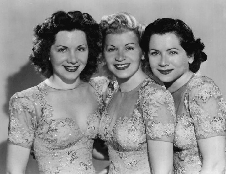 Photo of the Fontane Sisters from the radio program Chesterfield Supper Club. From left-Geri, Marge, and Bea.